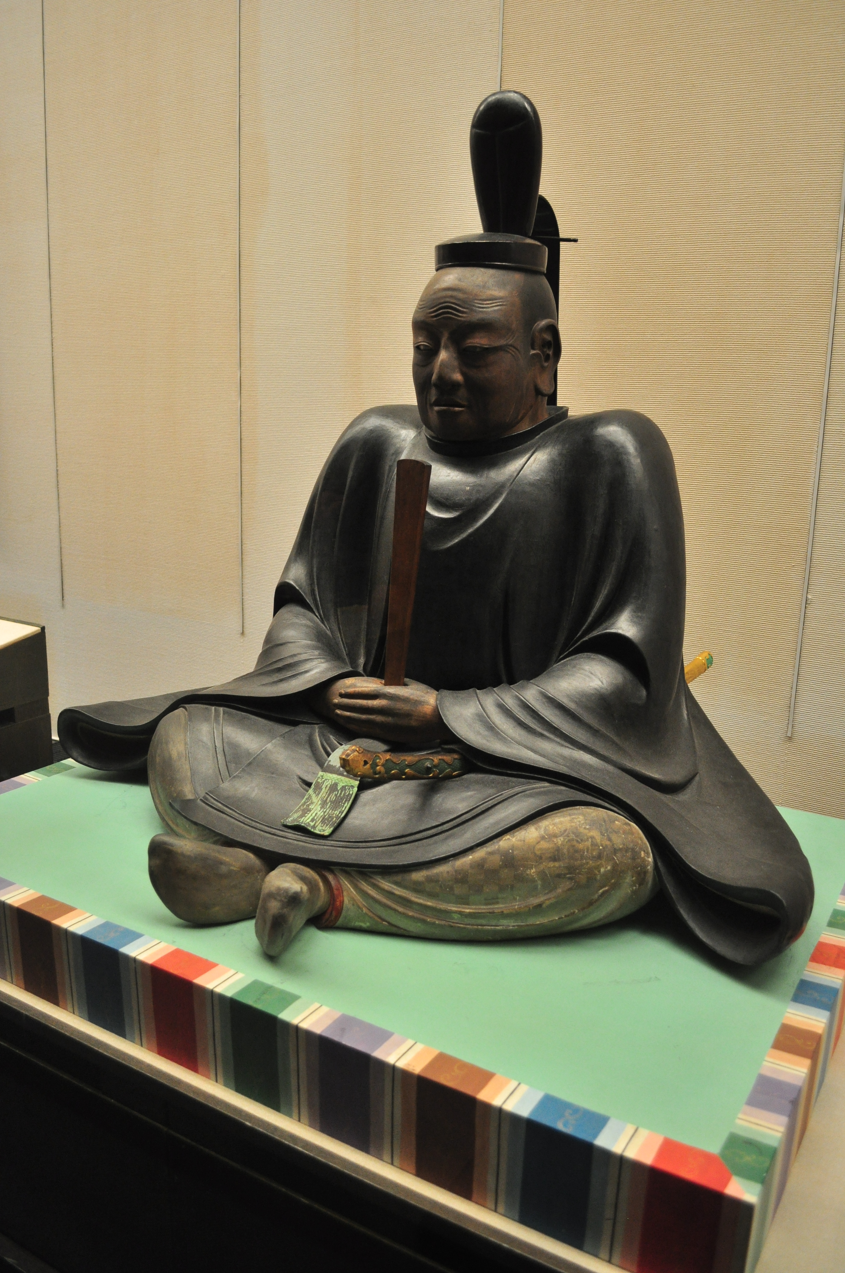 Edo-Tokyo Museum, Tokyo, Japan.